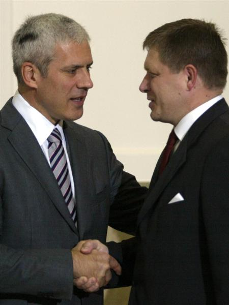 Boris Tadić, President of Serbia and Robert Fico, Prime Minister of Slovakia